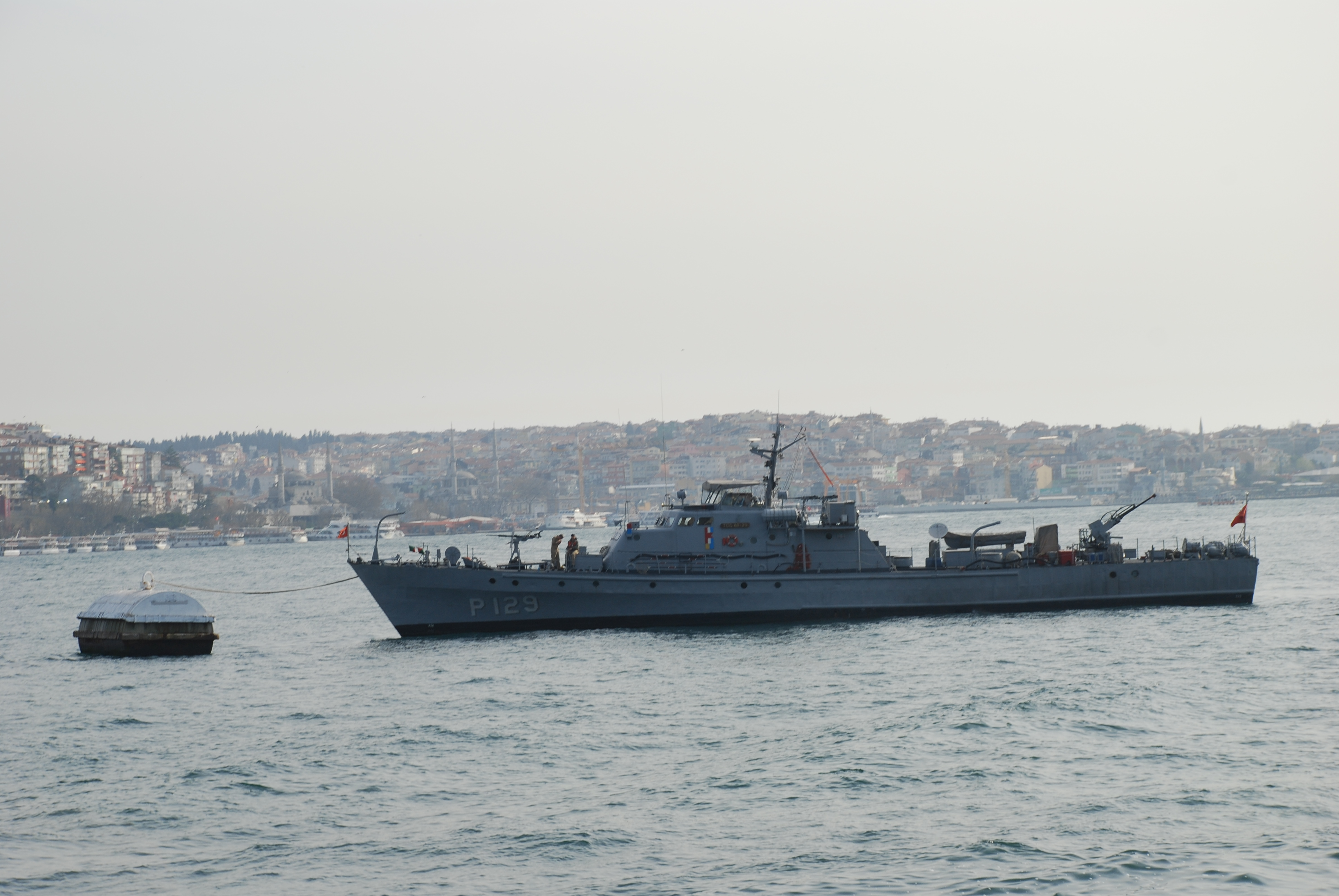 Turkey navy patrol boat AB 29 (P 129, TBTK) in Bosphorus.